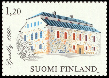 Postage stamp depicting the Sjundby Manor in Finland, with a history from the medieval times